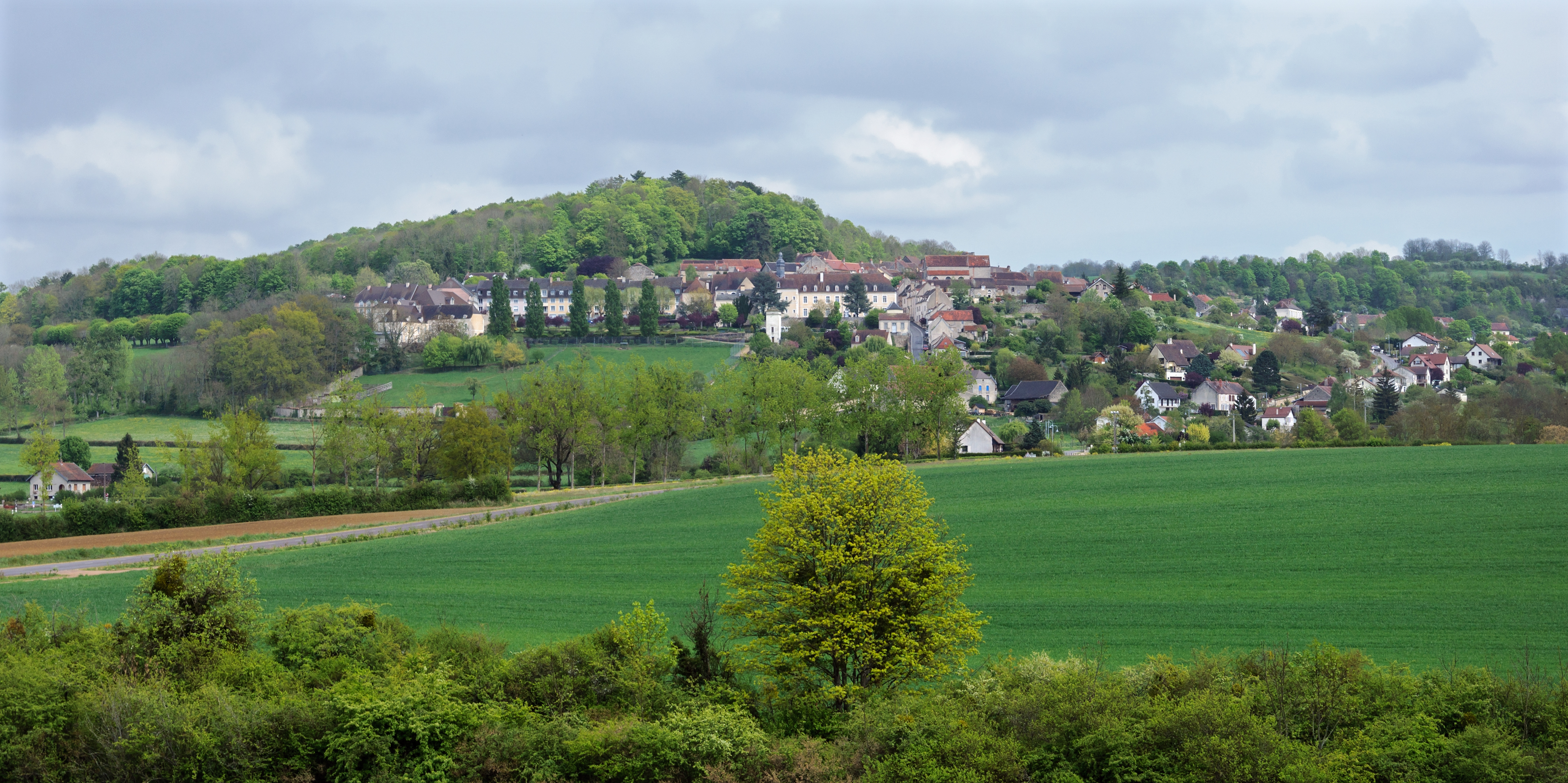 Alise-Sainte-Reine, Côte-d'Or department, Burgundy, France